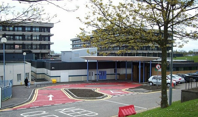 Monklands Hospital Accident and Emergency entrance, near to Coatdyke, North Lanarkshire, Great Britain.